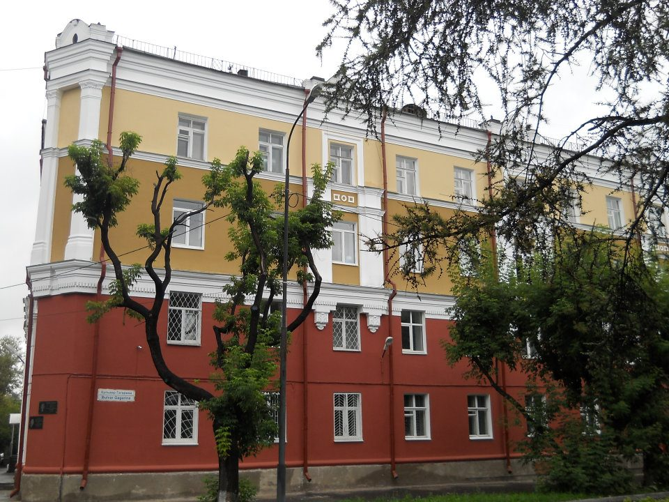 Photo ©2011 by Olga Katrenko